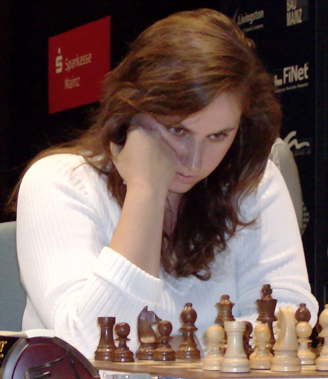 Judit Polgar, chess grandmaster from Hungary